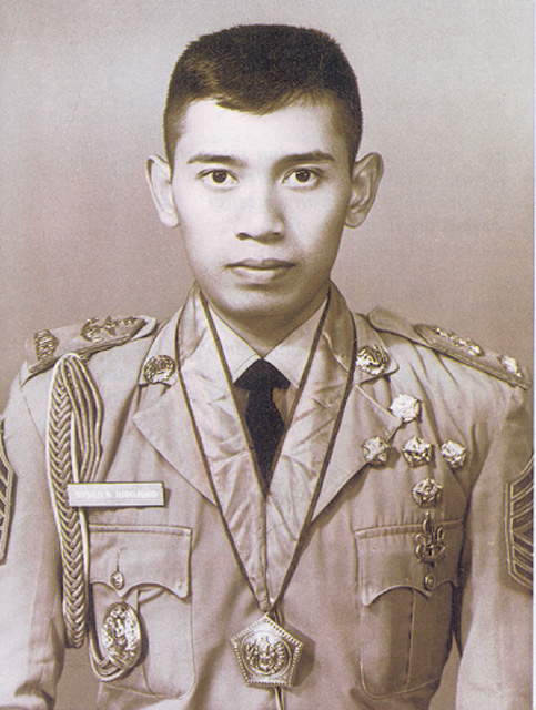 Portrait of Sergeant Major Susilo Bambang Yudhoyono